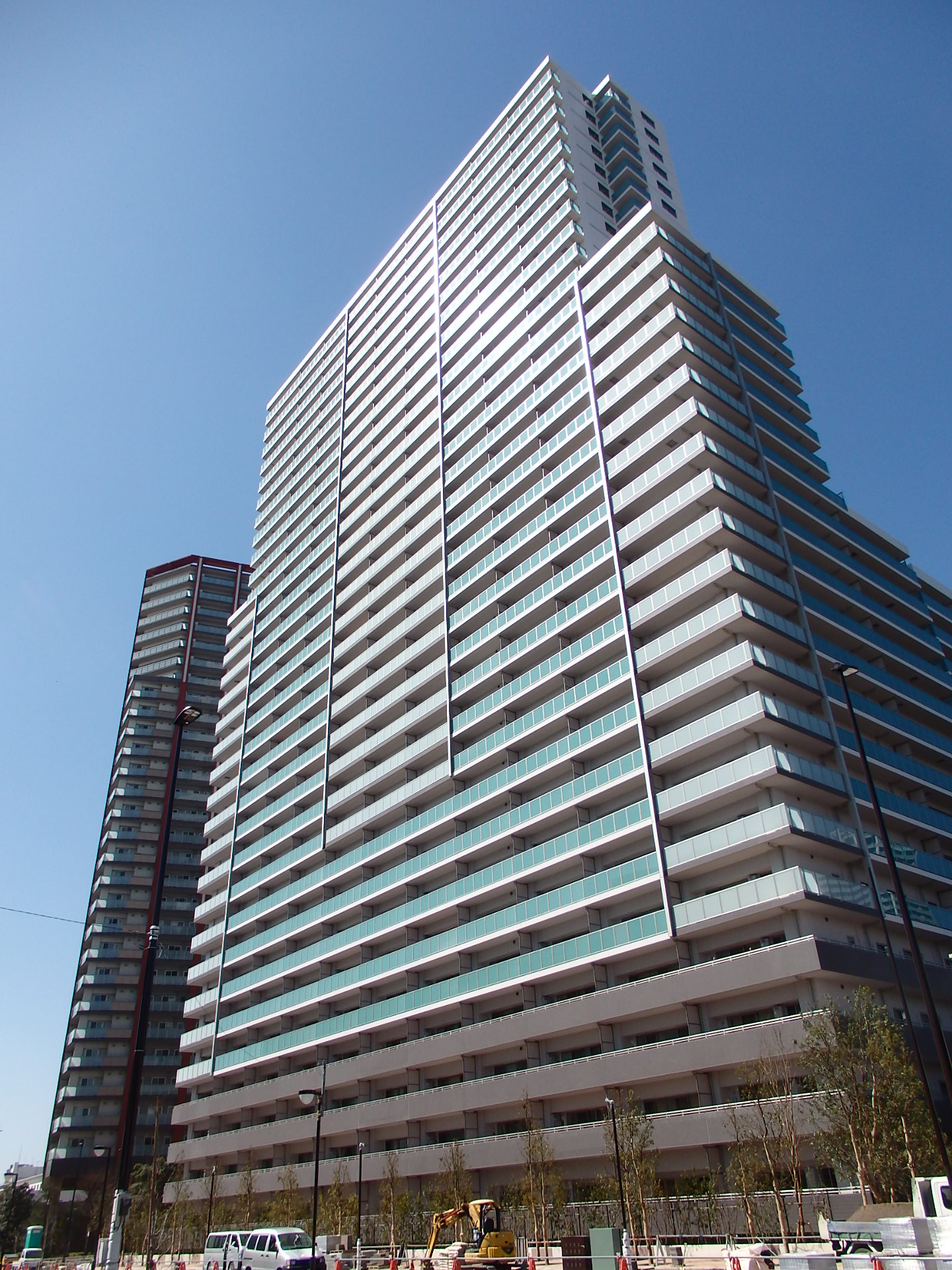 Musashi-Urawa Sky & Garden